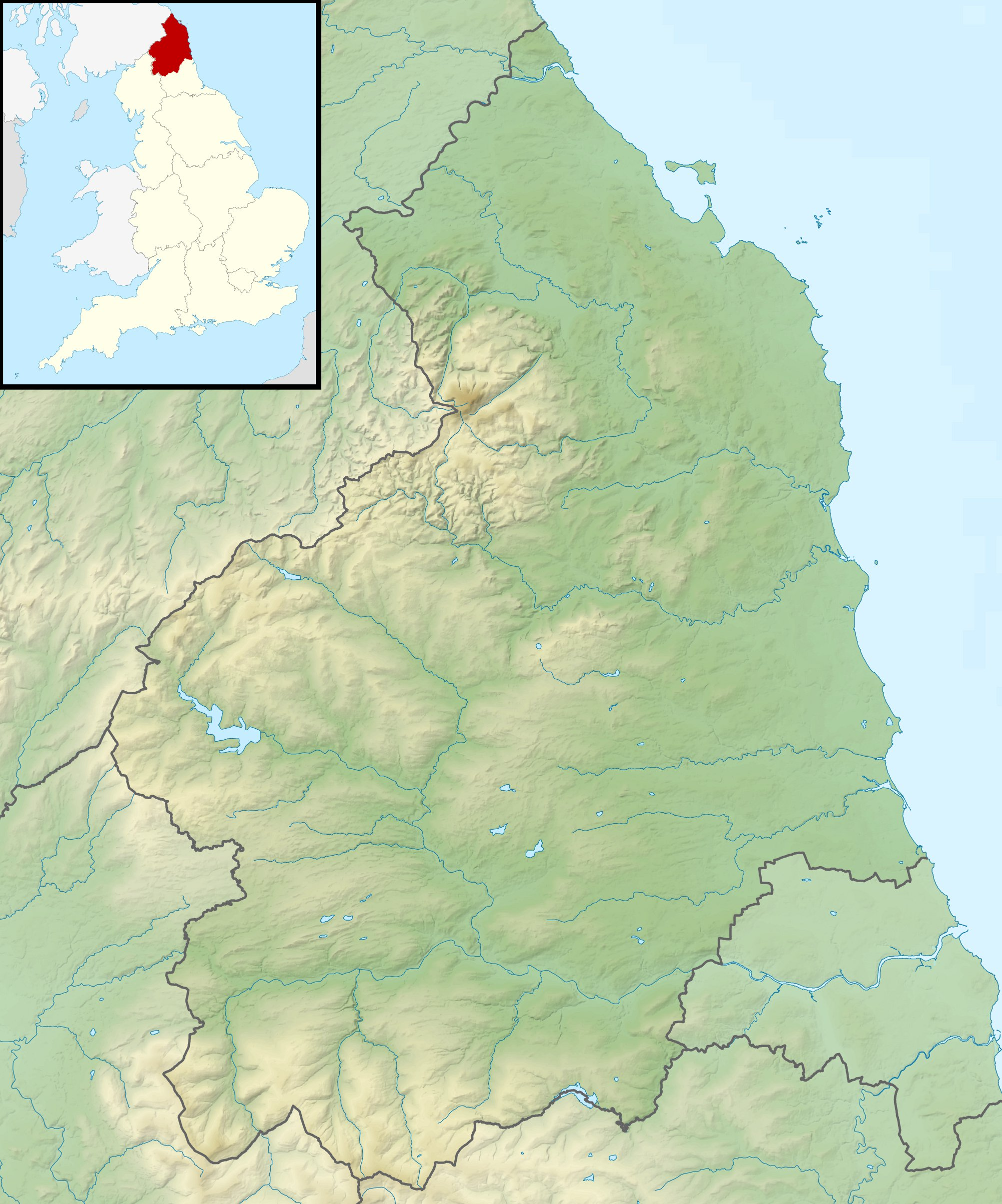 Relief map of Northumberland, UK. Equirectangular map projection on WGS 84 datum, with N/S stretched 170% Geographic limits: West: 2.85W East: 1.35W North: 55.83N South: 54.77N